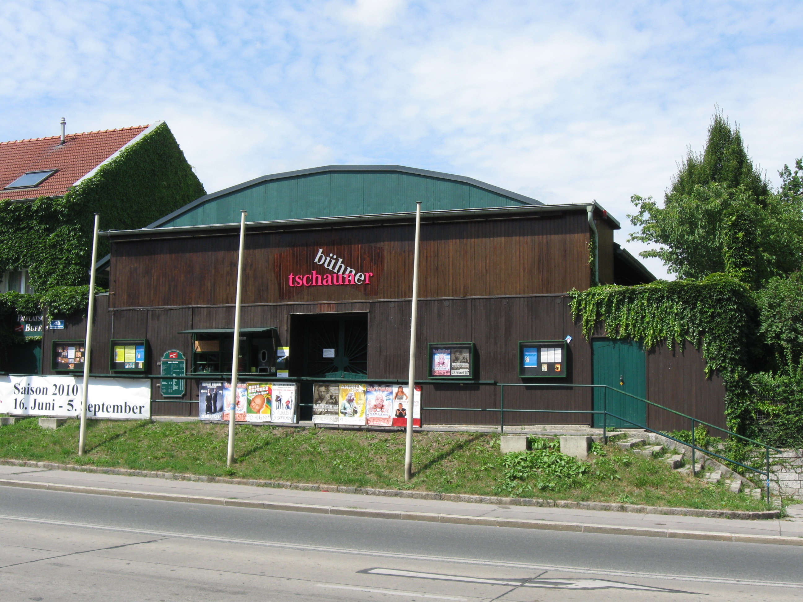 Tschauner's Theatre in Vienna